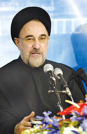 Mohammad Khatami speech in Royan Institute - February 5, 2005